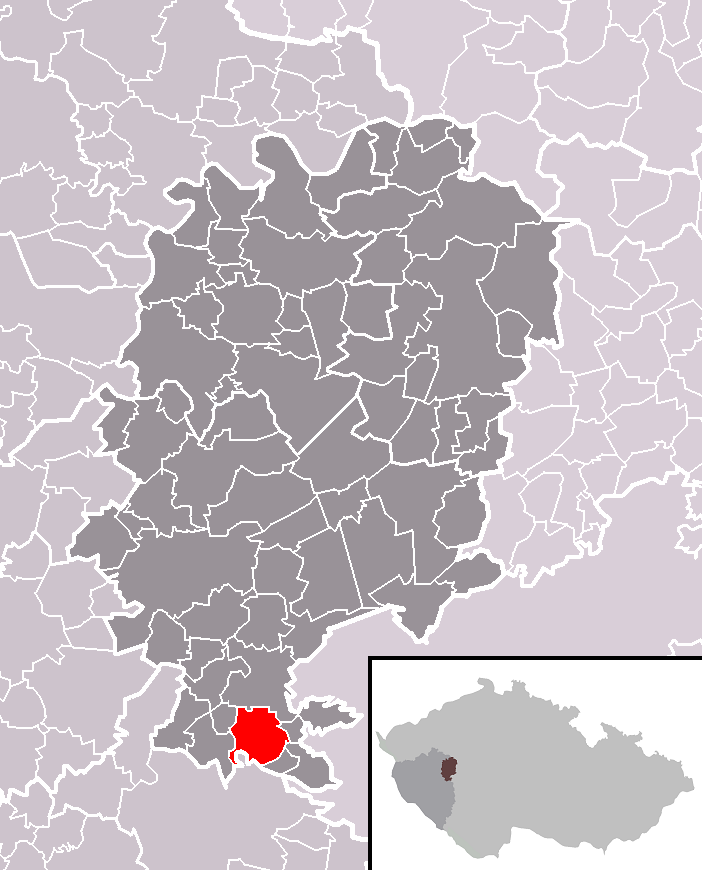 Location of Příkosice municipality within Rokycany District and within identical administrative area of Rokycany as a Municipality with Extended Competence.